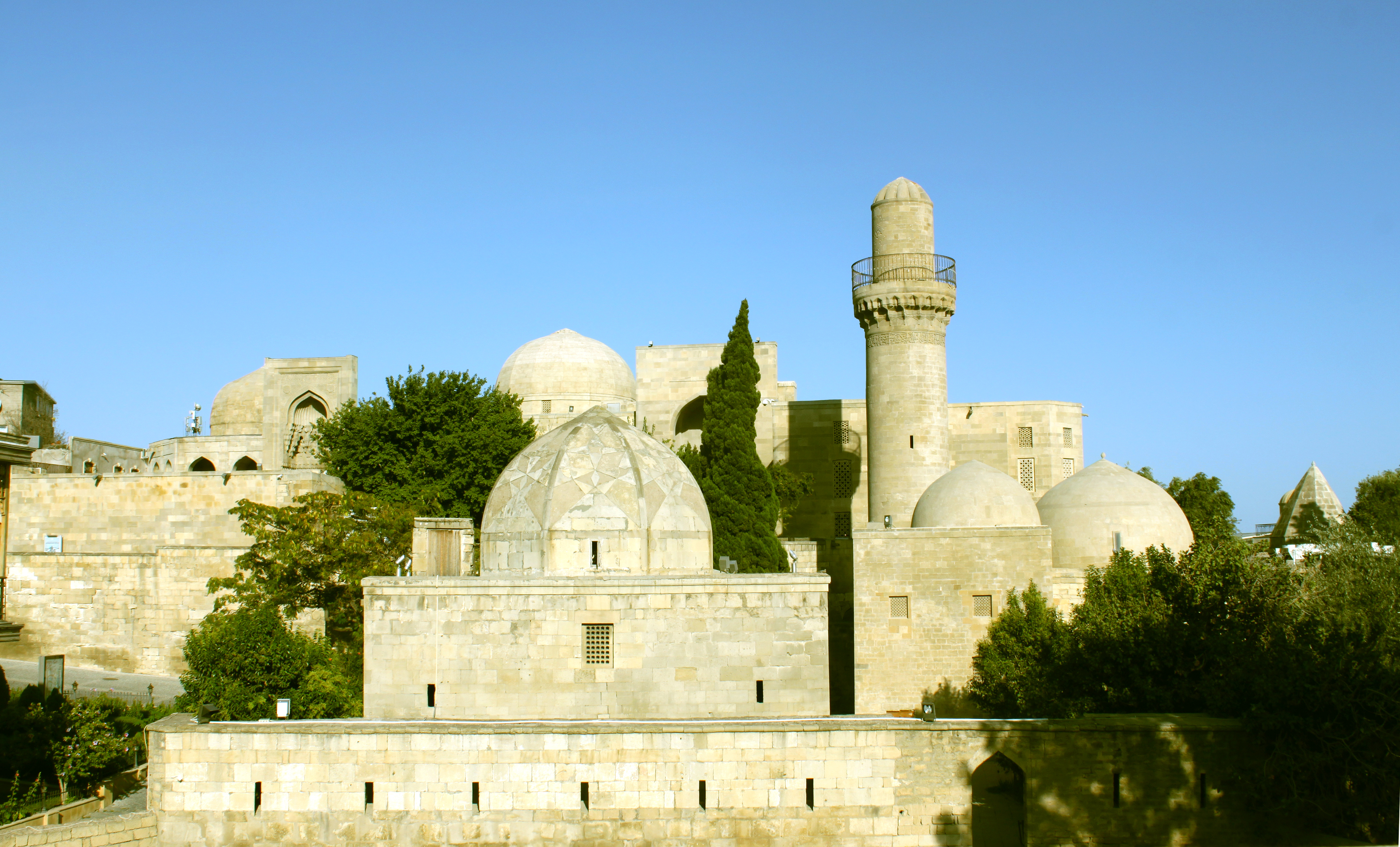 Palace of Shirvanshahs common